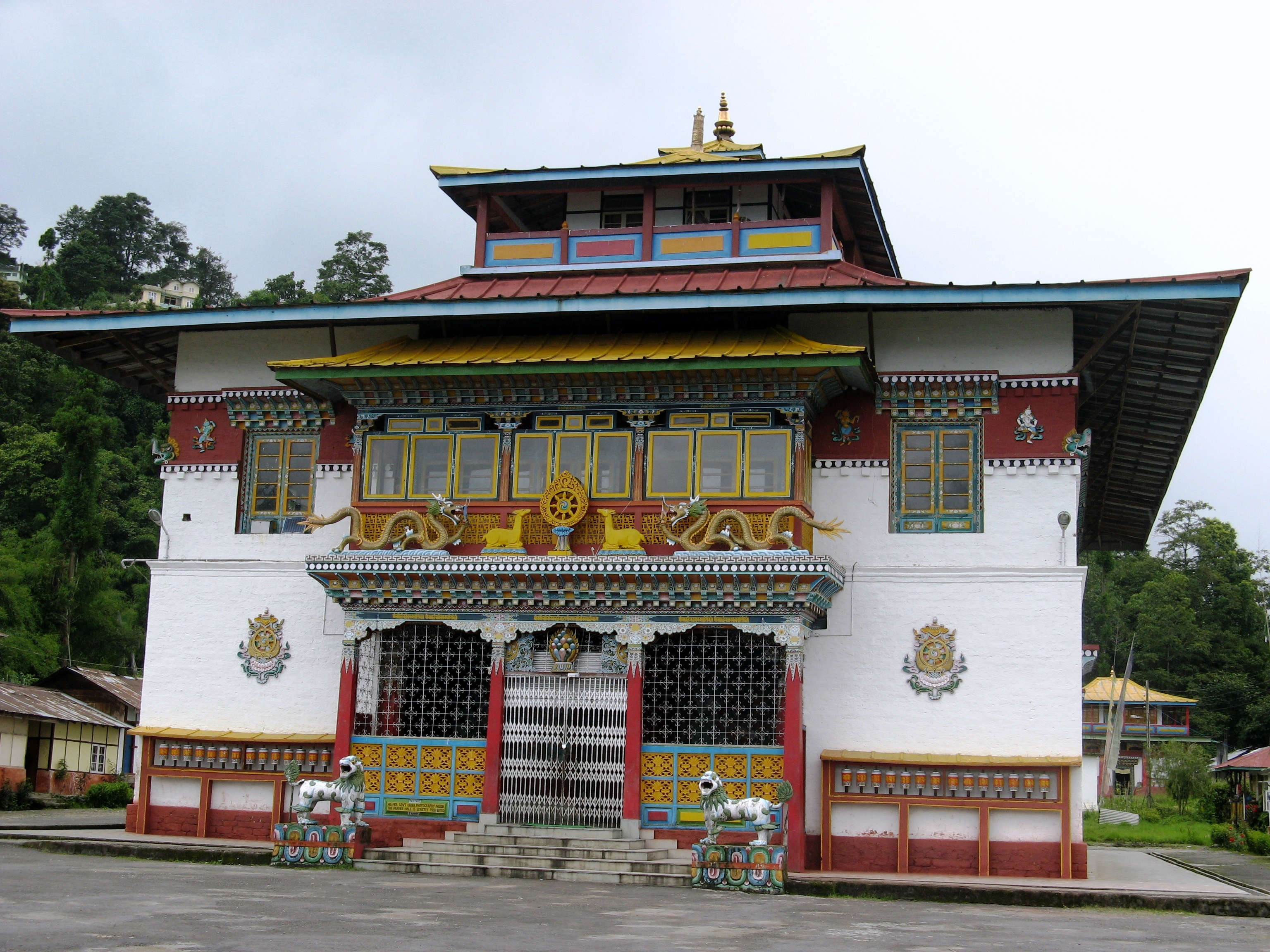 the phodong monastery in north sikkim which is a little more than 30kms. from gangtok. there is an interesting link between the monastery and the famous french scholar on buddhism Madame Alexandra David Neel. She visited many monasteries in sikkim and spent many months meditating in a cave near Lachen. When she finally left sikkim in 1913-14, Sidkeong Tulku, the Maharaja of sikkim who was also the abbot of the phodong monastery presented her with a bronze statue of buddha as a souvenier. She spent a lot of time in tibet and many parts of asia studying buddhism before returning to france in 1925. She published many papers and journals about her travels and learnings of buddhism and its mysticism, which made her one of the eminent international authorities on the subject. Before she died in 1969 at the age of 100, she wished that the statue should be returned to sikkim. Her wish was fulfilled by her friend Mary Peyronnet who was also the secretary of the Alexandra David Neel foundation. She visited sikkim along with the statue in 1992. Amidst rituals and prayers, the statue was restored to Phodong on 24th April 1992 information courtsey - Sikkim, A guide and Handbook by Rajesh Verma